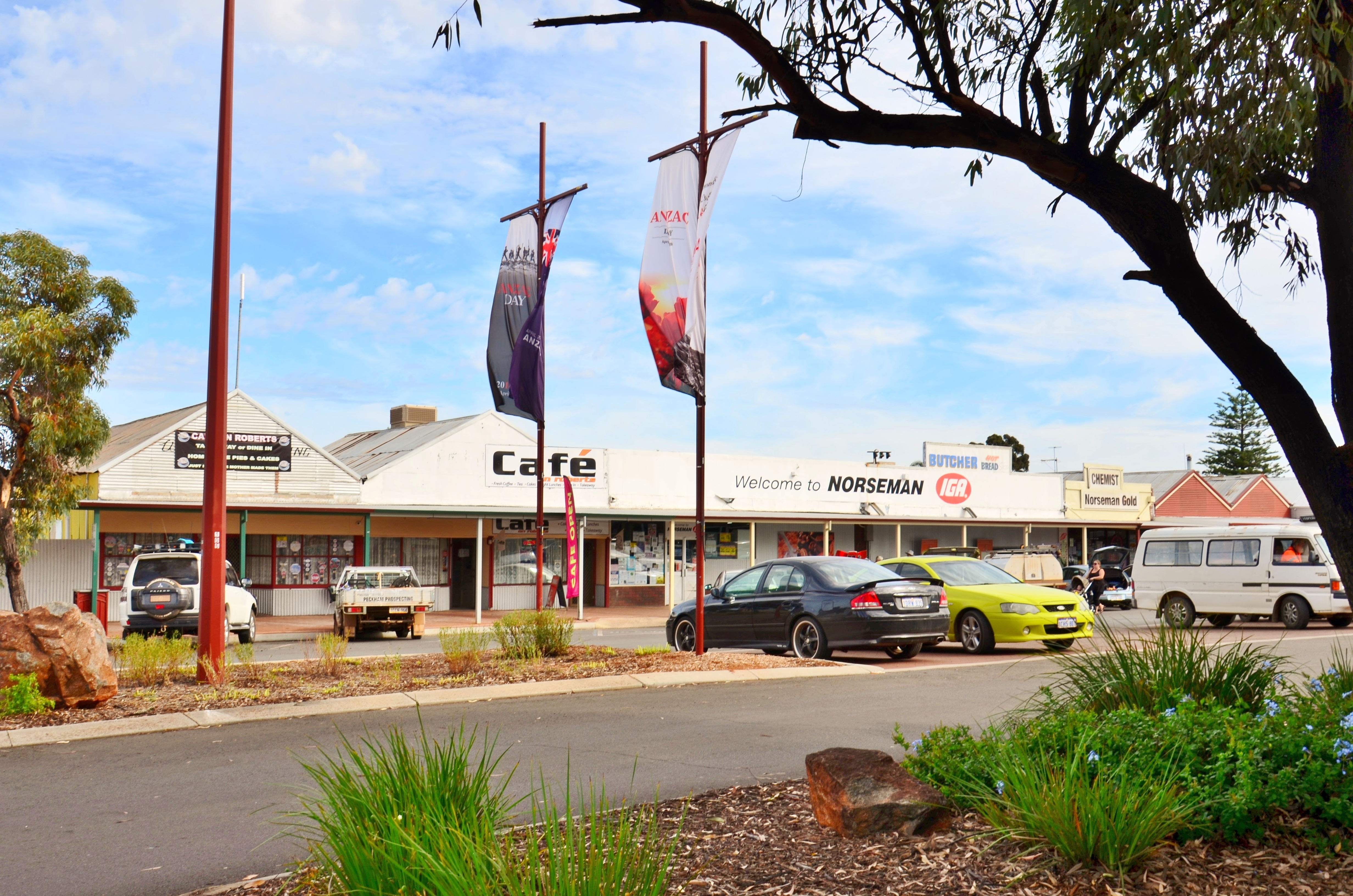 View of Roberts Street, the main street of Norseman, Western Australia